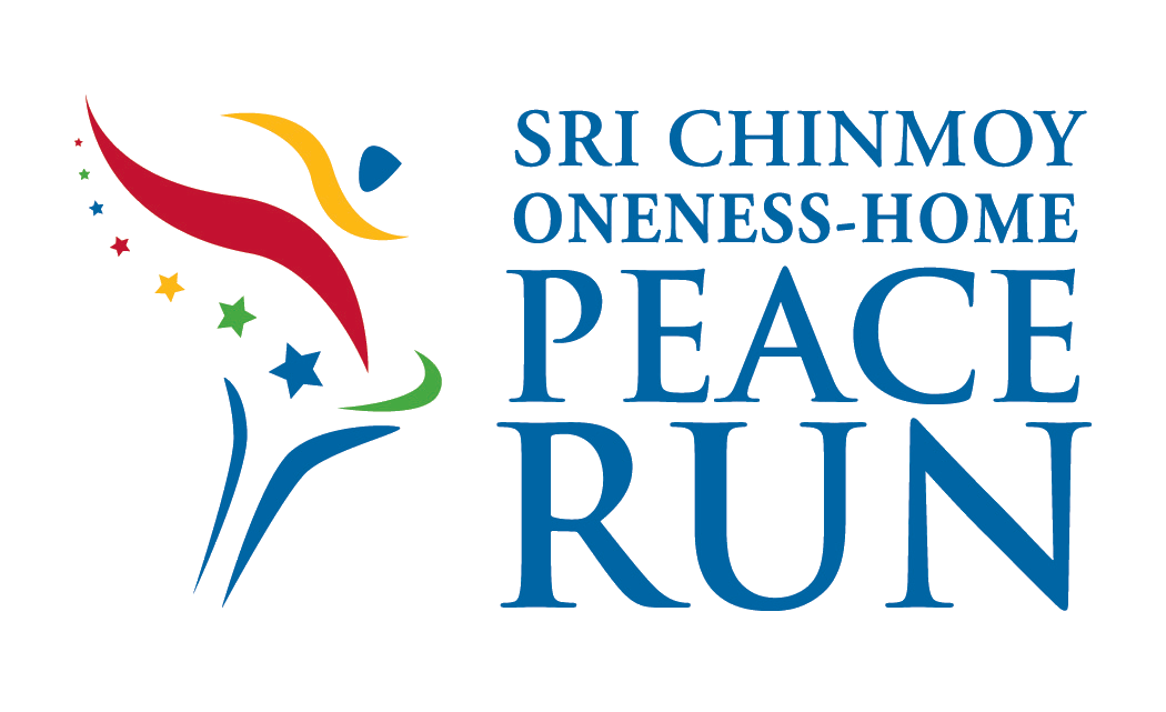 Transparent Logo from Peace Run.